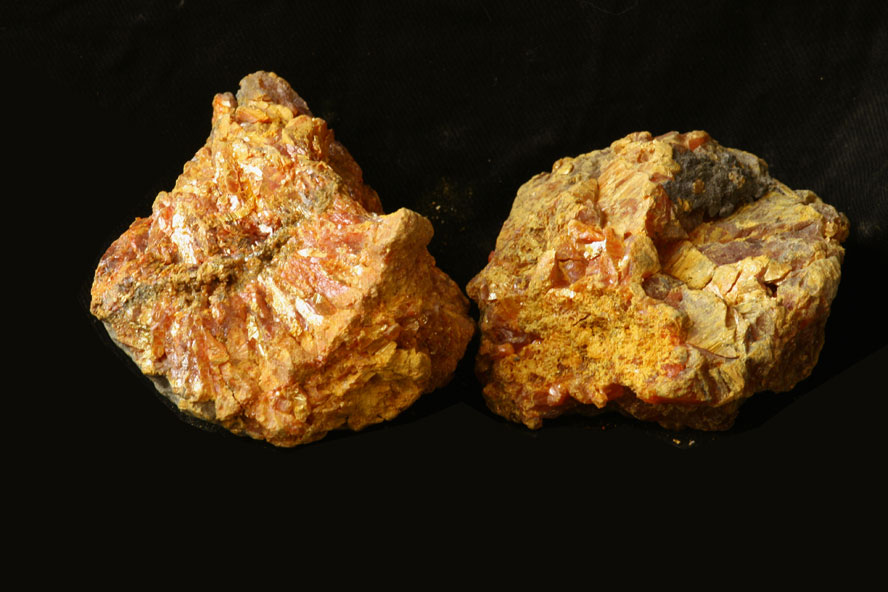 Arsenic trisulfide